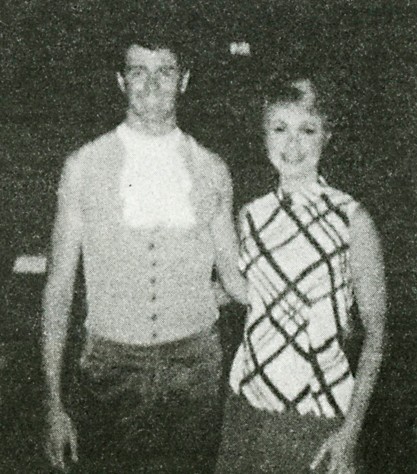 Picture of Richard Roberts and Shirley Jones at the Kansas City Starlight Theater